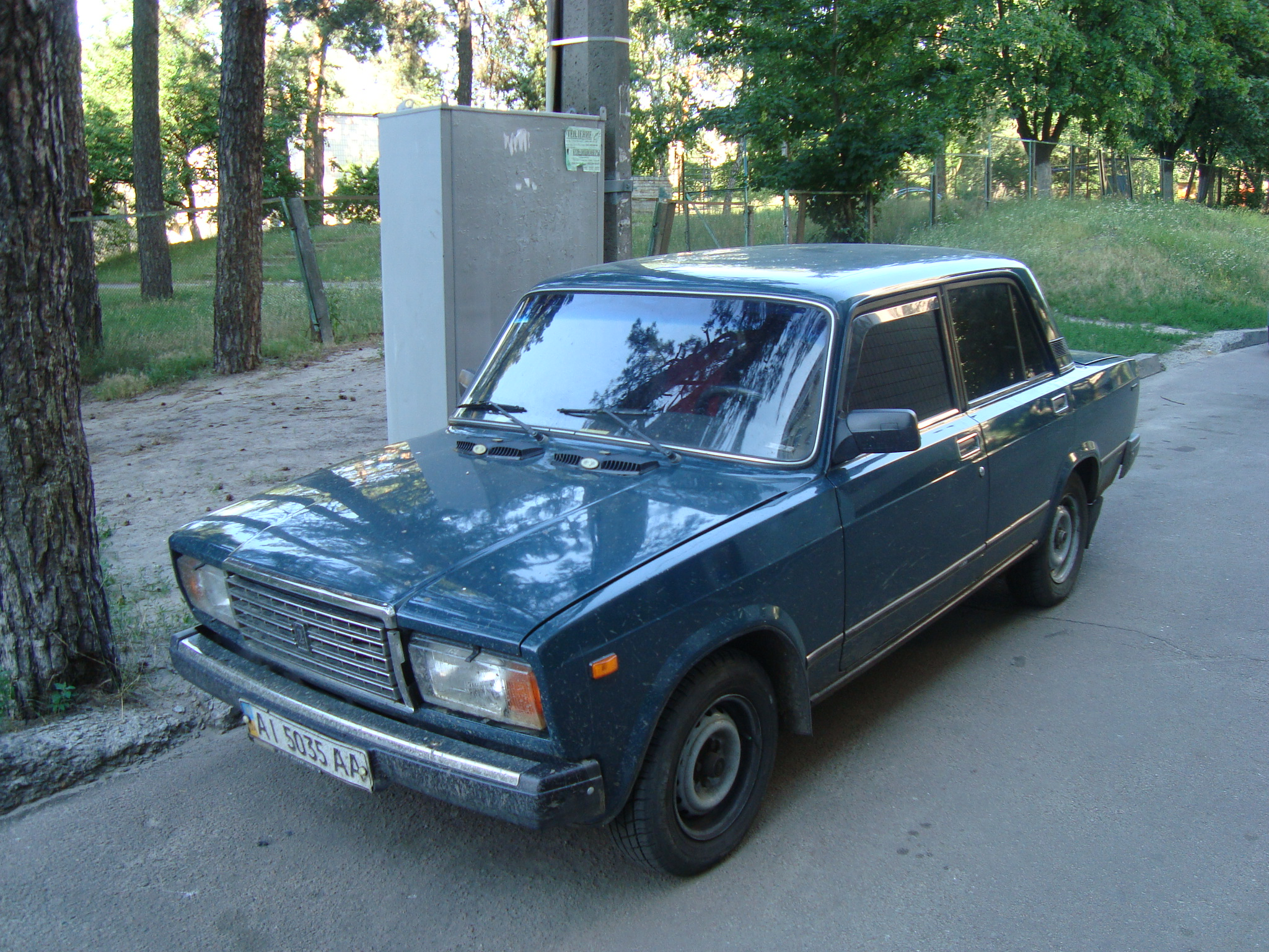 Lada in Kyiv